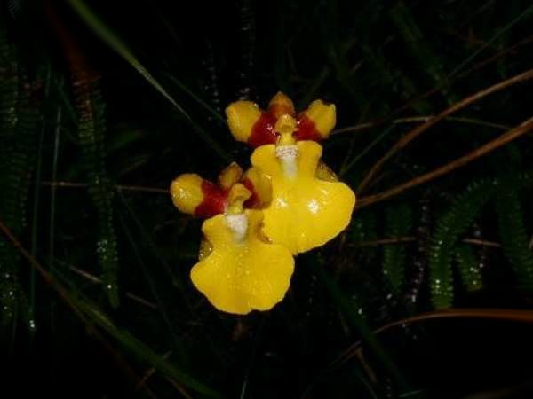 Otoglossum harlingii